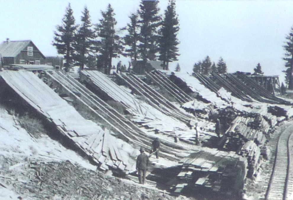 Historical photo of Mono Mills in operation (pre-1914), in Mono County, eastern California. Photo in the public exhibit near ghost town's site.